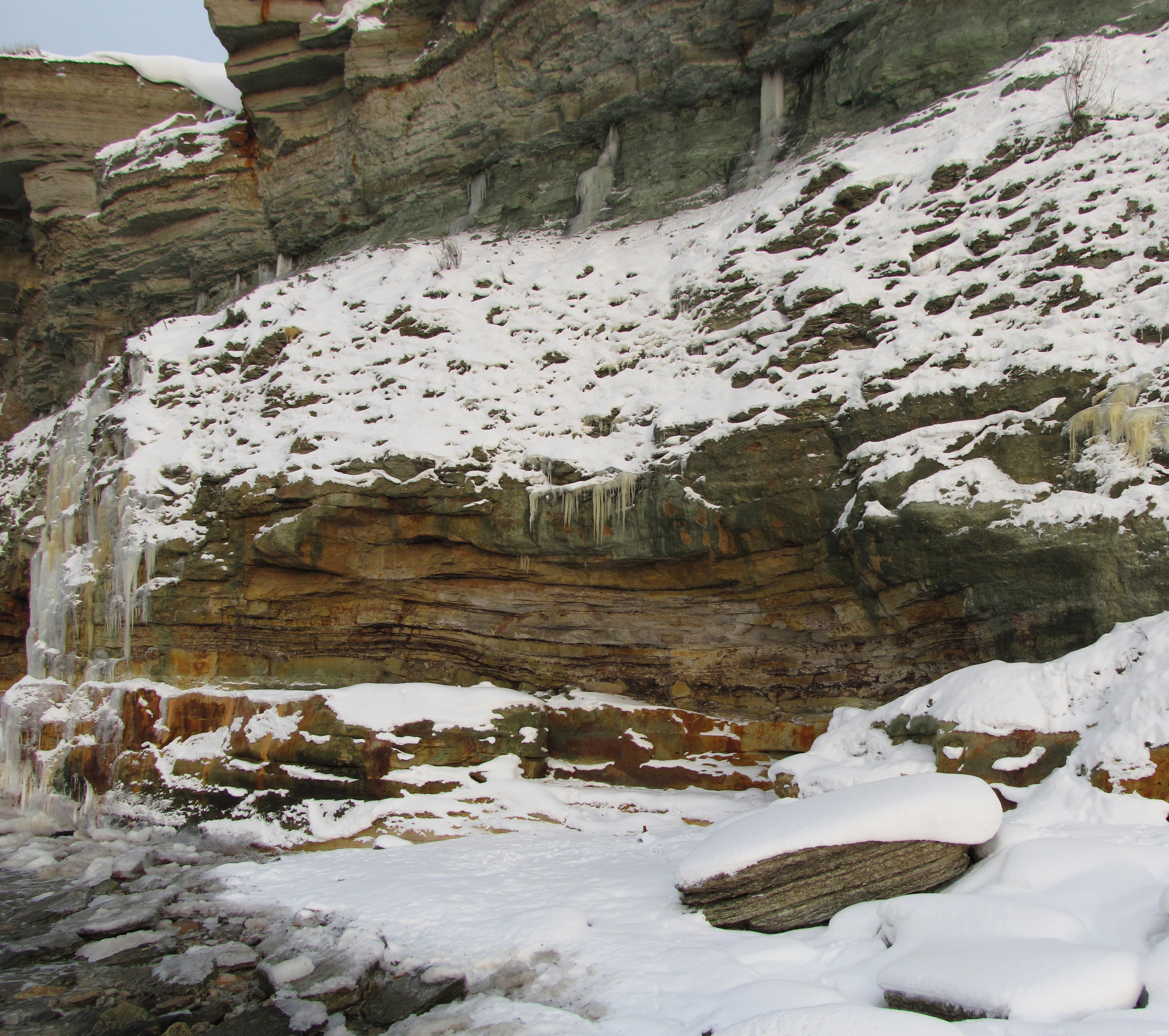 Wave-cut notch in Cambrian sandstone, Pakri cliff, Northern Estonia. h=3-4 m, w=4-5 m, depth=2-3 m. Height of the cliff itself: 24 m